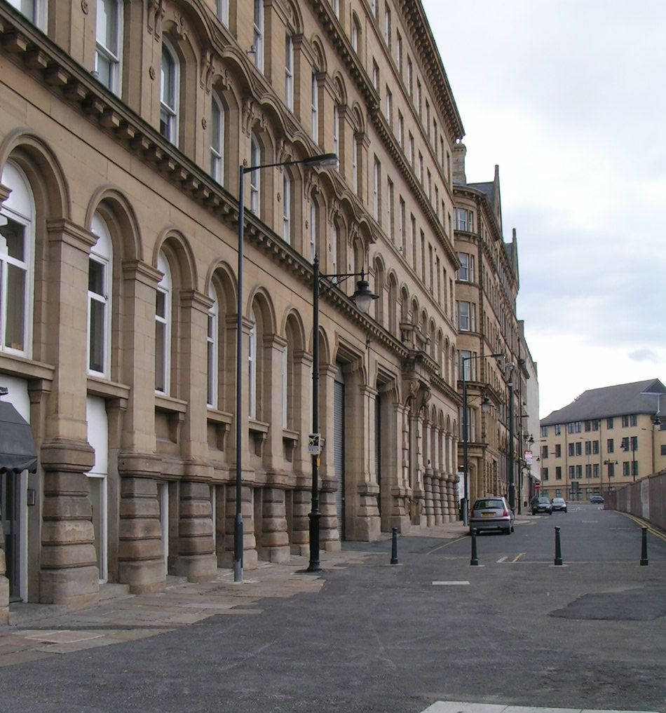 Image of Little Germany, Bradford